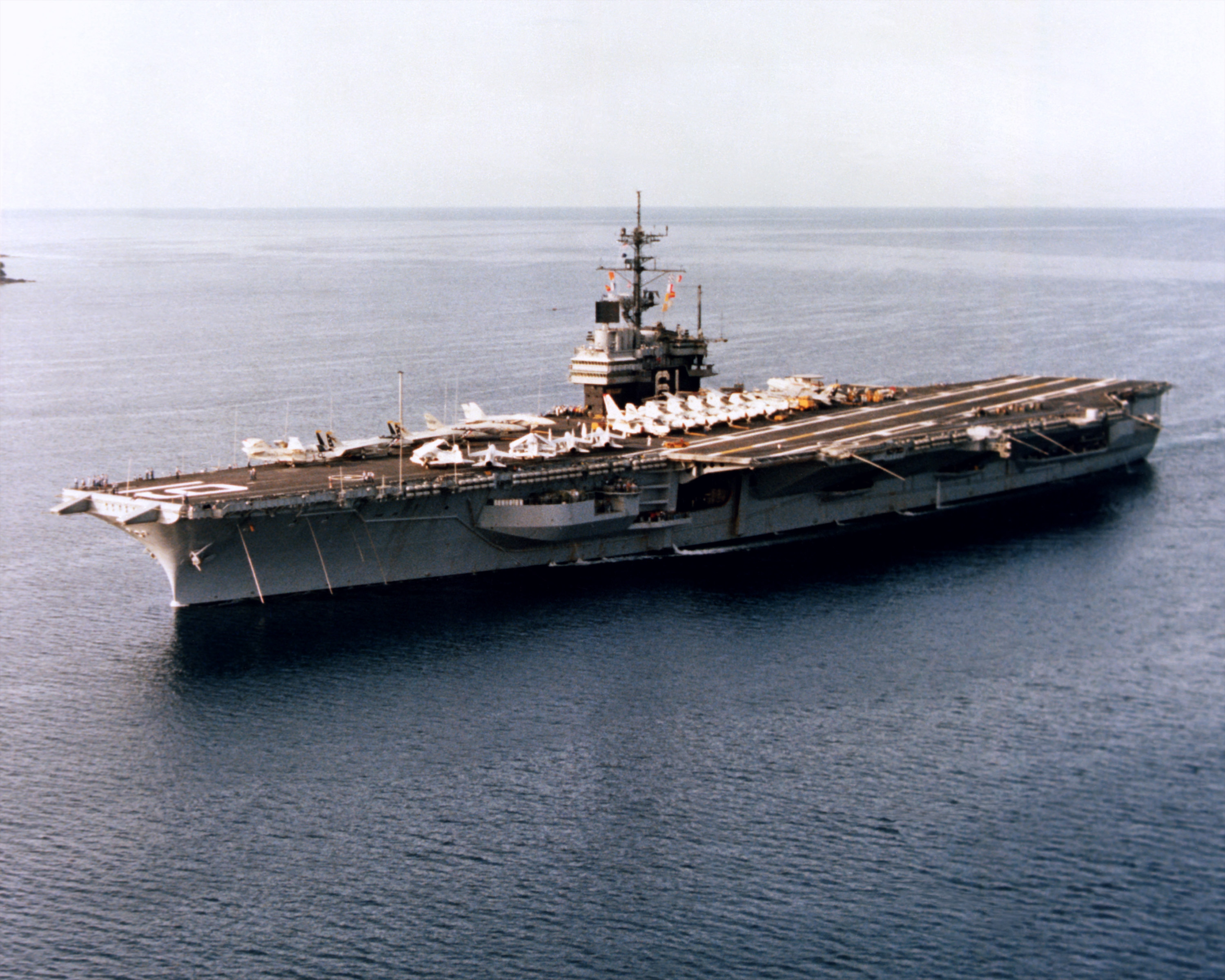 An aerial port bow view of the aircraft carrier USS RANGER (CV-61) underway off the coast of California.